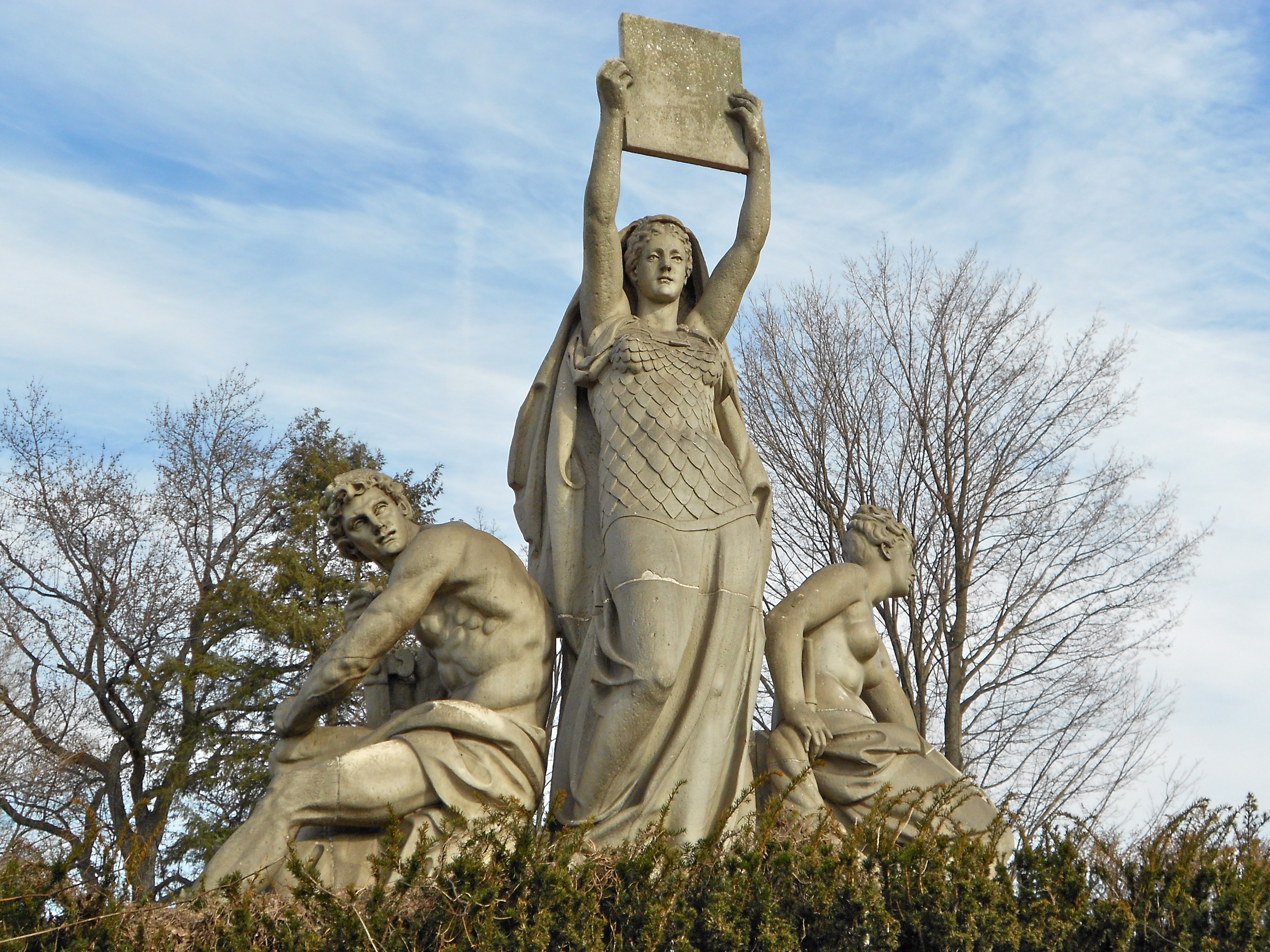 Law, Prosperity, and Power (1880-84) by Daniel Chester French. Made for Philadelphia's Main Post Office (1884), it was removed in 1938 when the building was demolished, and installed in West Fairmount Park (near the Mann Center).